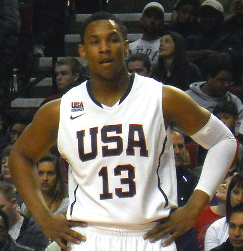 Cropped version of the picture. Jared Sullinger at the 2010 Nike Hoop Summit